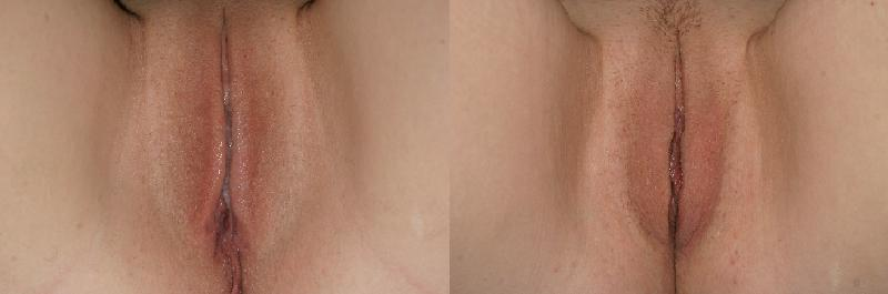 Before & after Perineoplasty